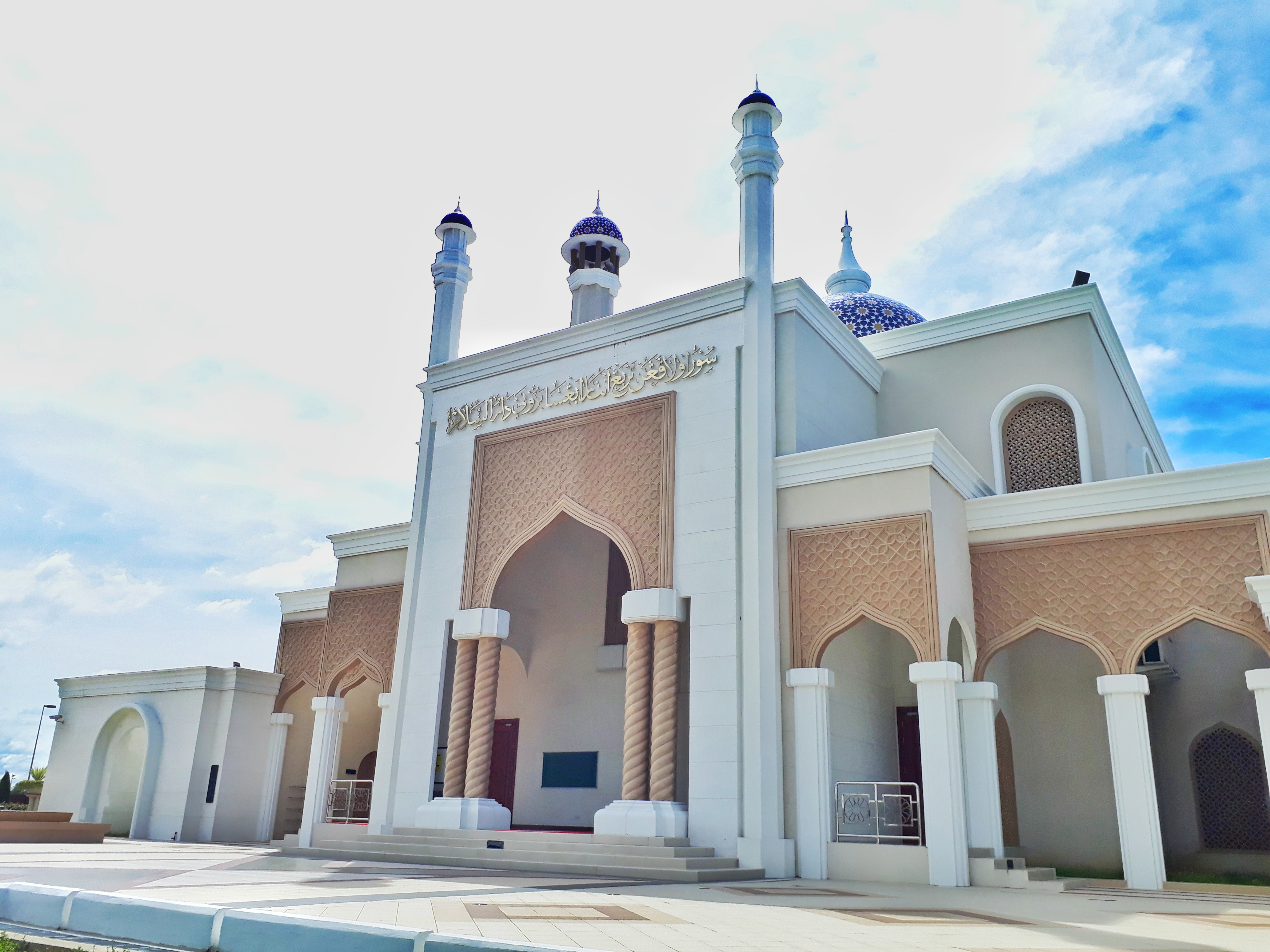 the Surau at the Brunei International Airport